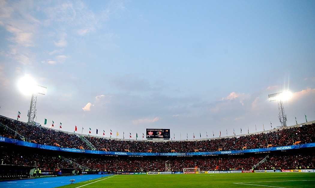 AFC Champions League Final 2018